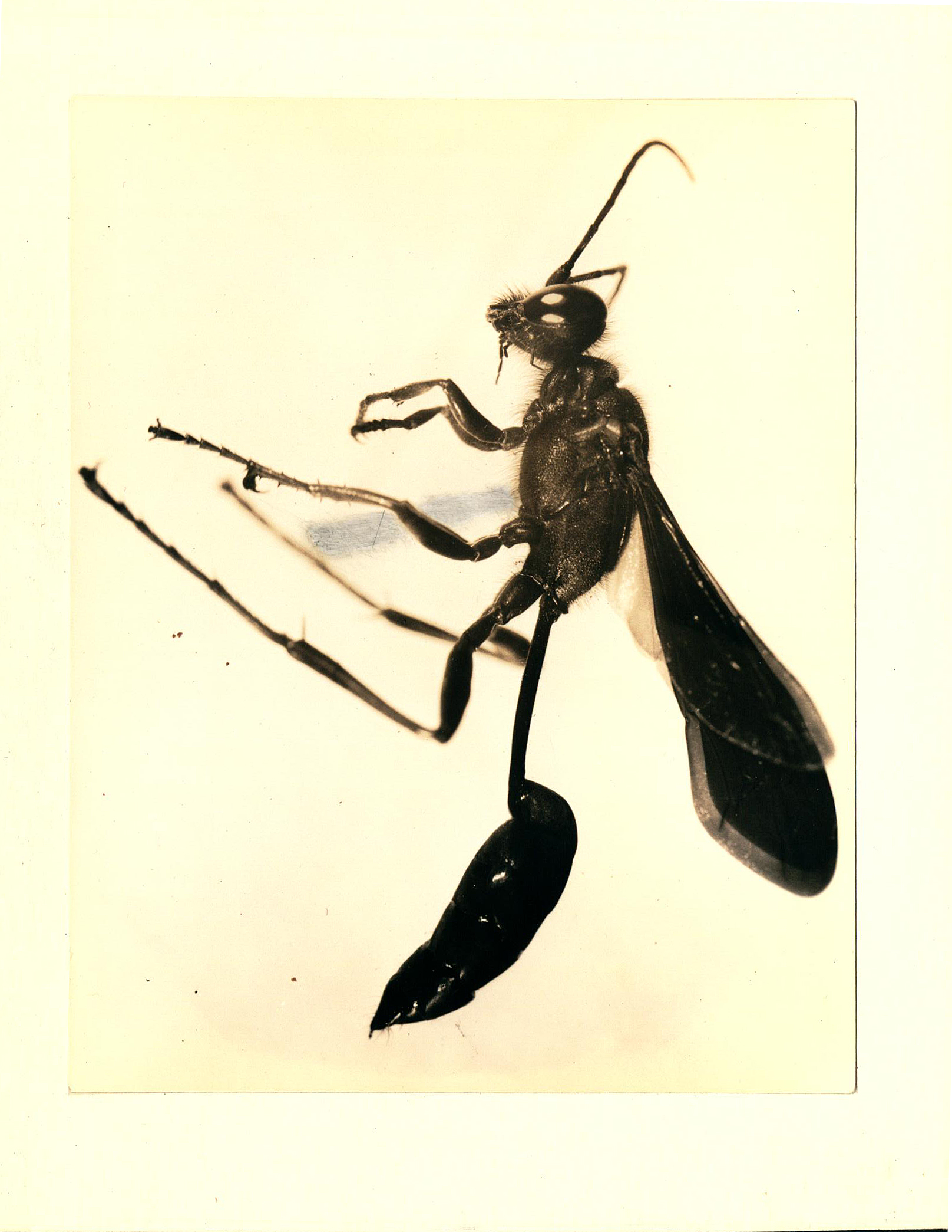 "Wasp 2" photo by Professor Stuart W. Frost of Penn State University, who helped found the Frost Entomological Museum. The museum posted this on Flickr with the (CC BY 2.0) license